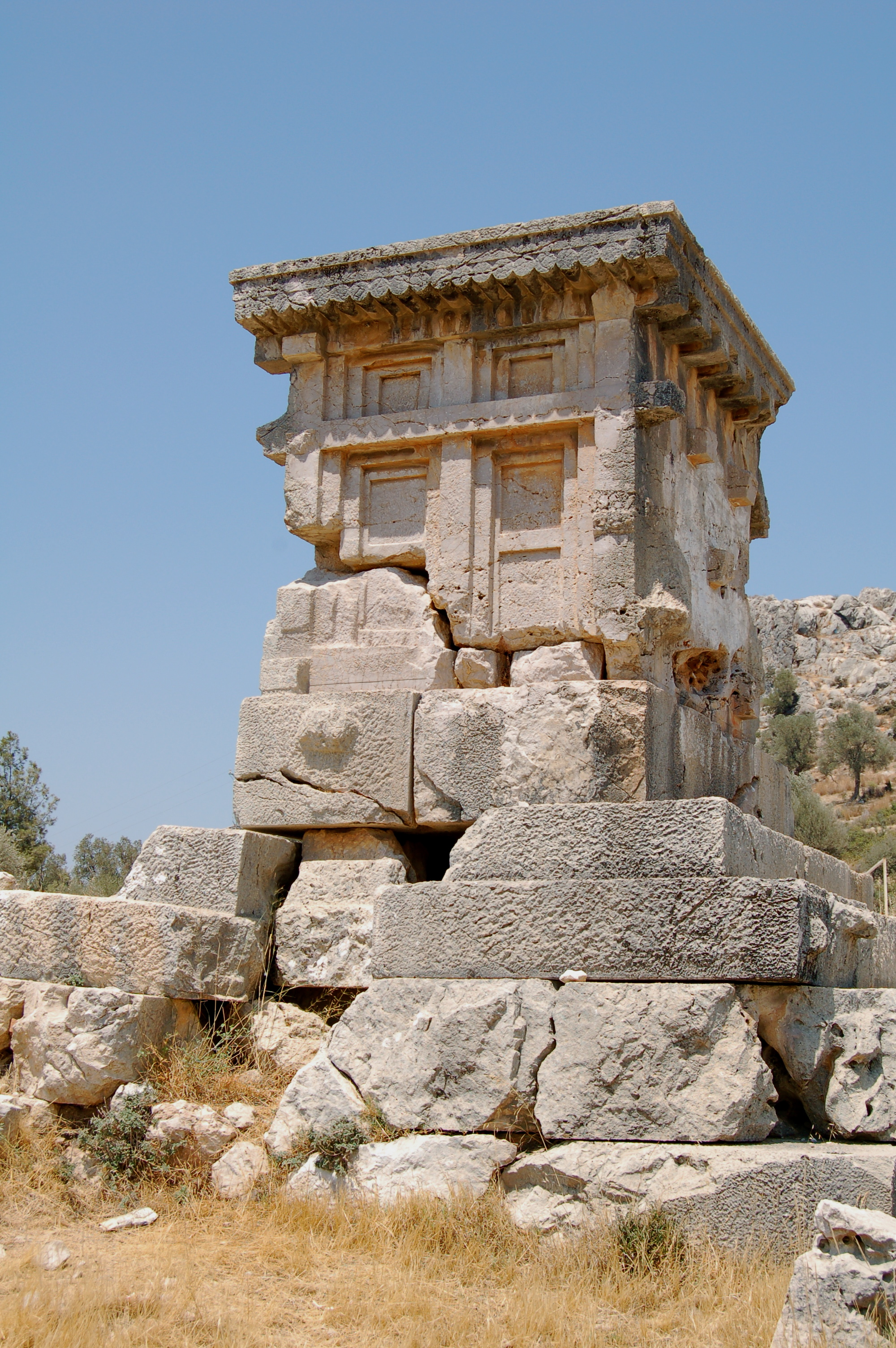 Lycian sarcophagus at Xanthos, Turkey. Probably the 'House Tomb', see Talk:Tomb_of_Payava